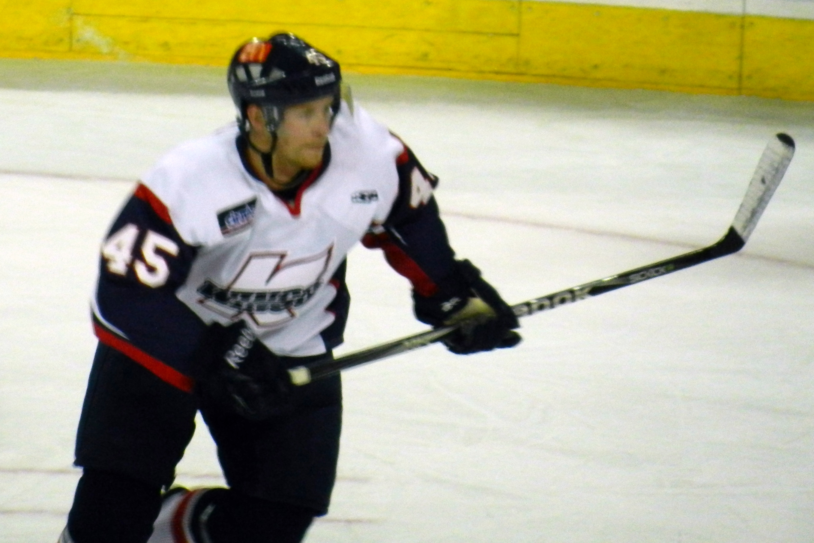 Trent Daavettila playing for the ECHL's Kalamazoo Wings in 2012